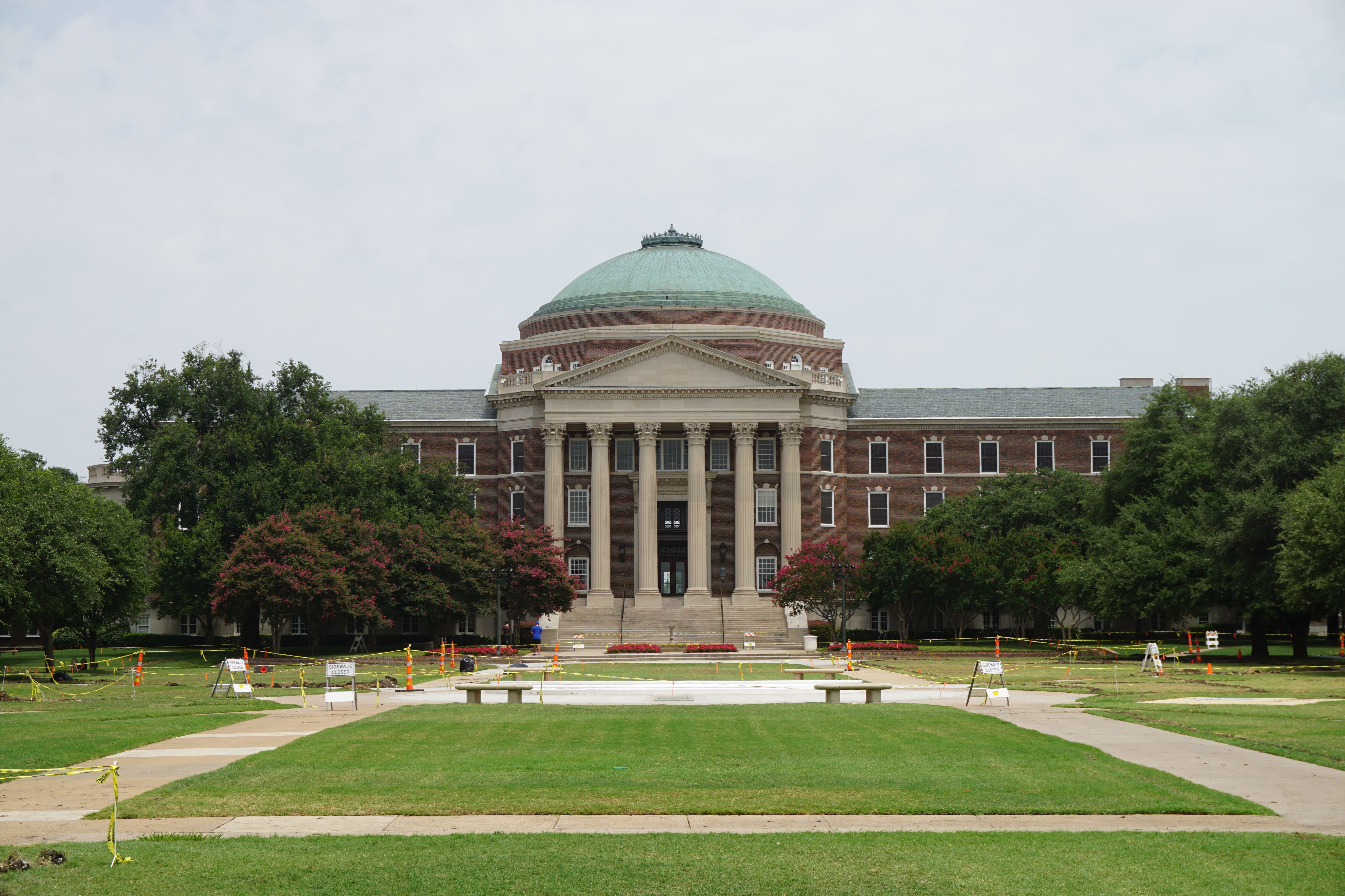 Dallas Hall on the campus of Southern Methodist University in University Park, Texas (United States).